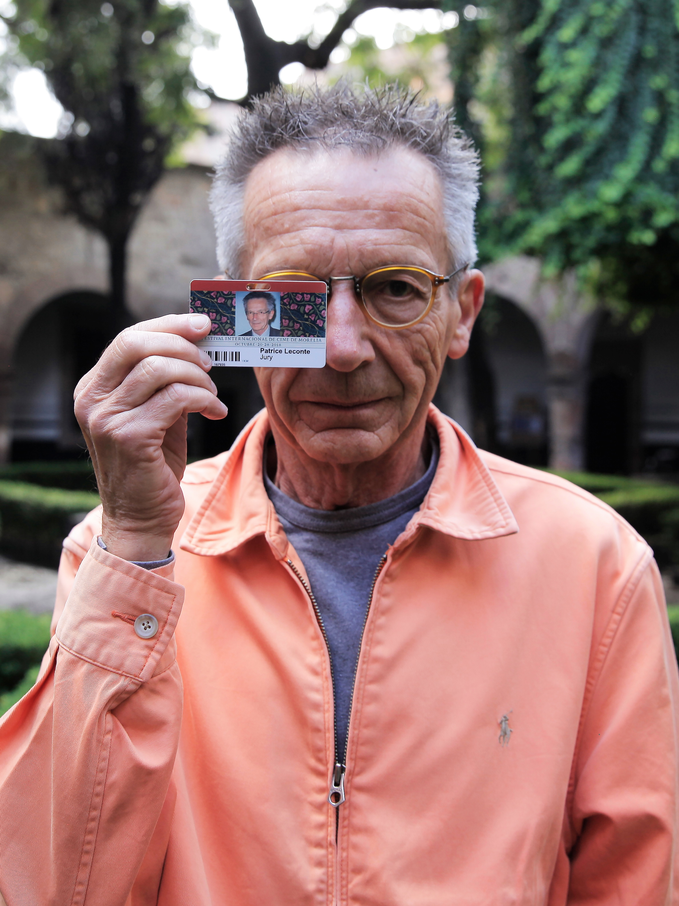 Patrice Leconte at Morelia International Film Festival in 2018